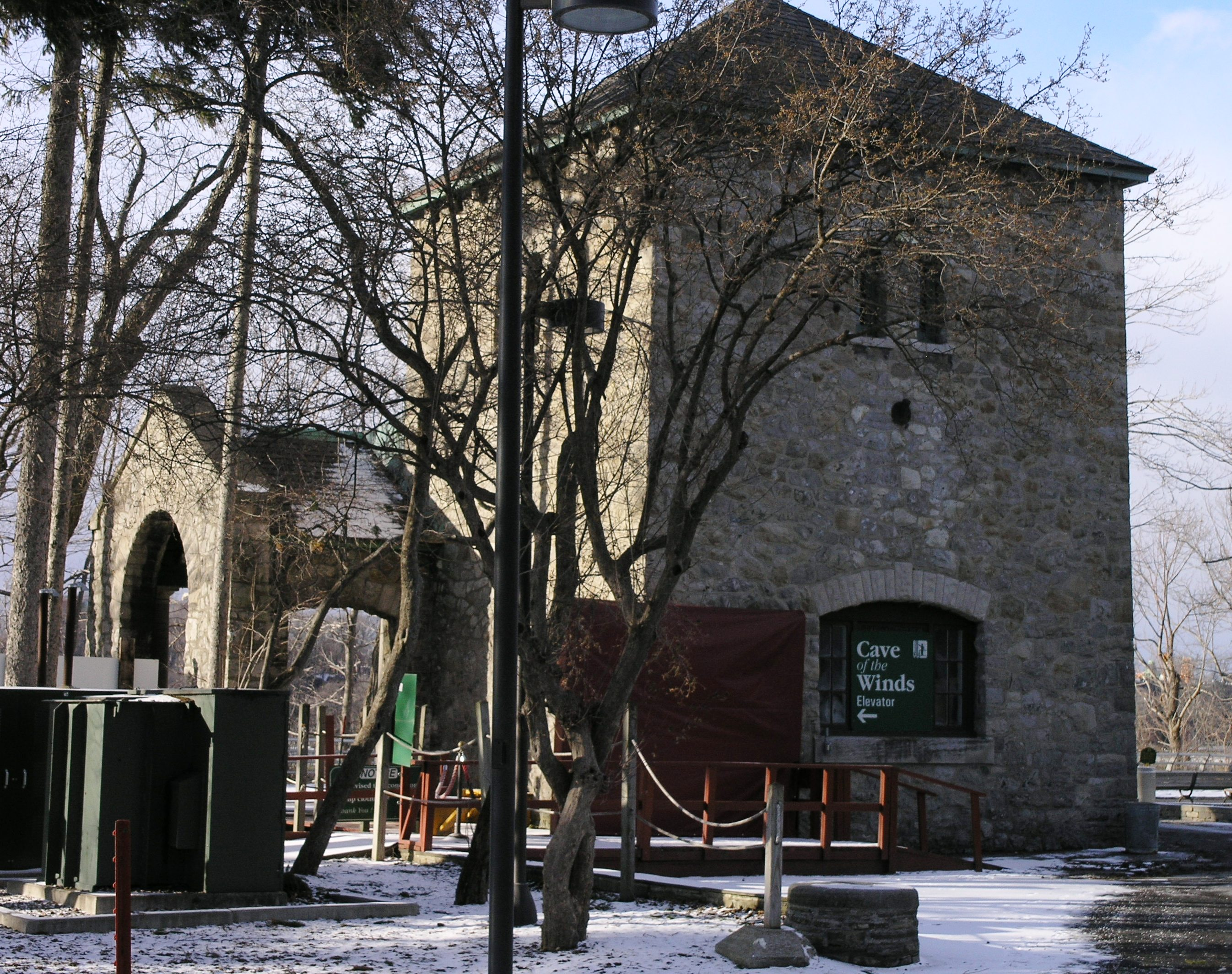 Taken by Daniel Mayer in late February 2006.